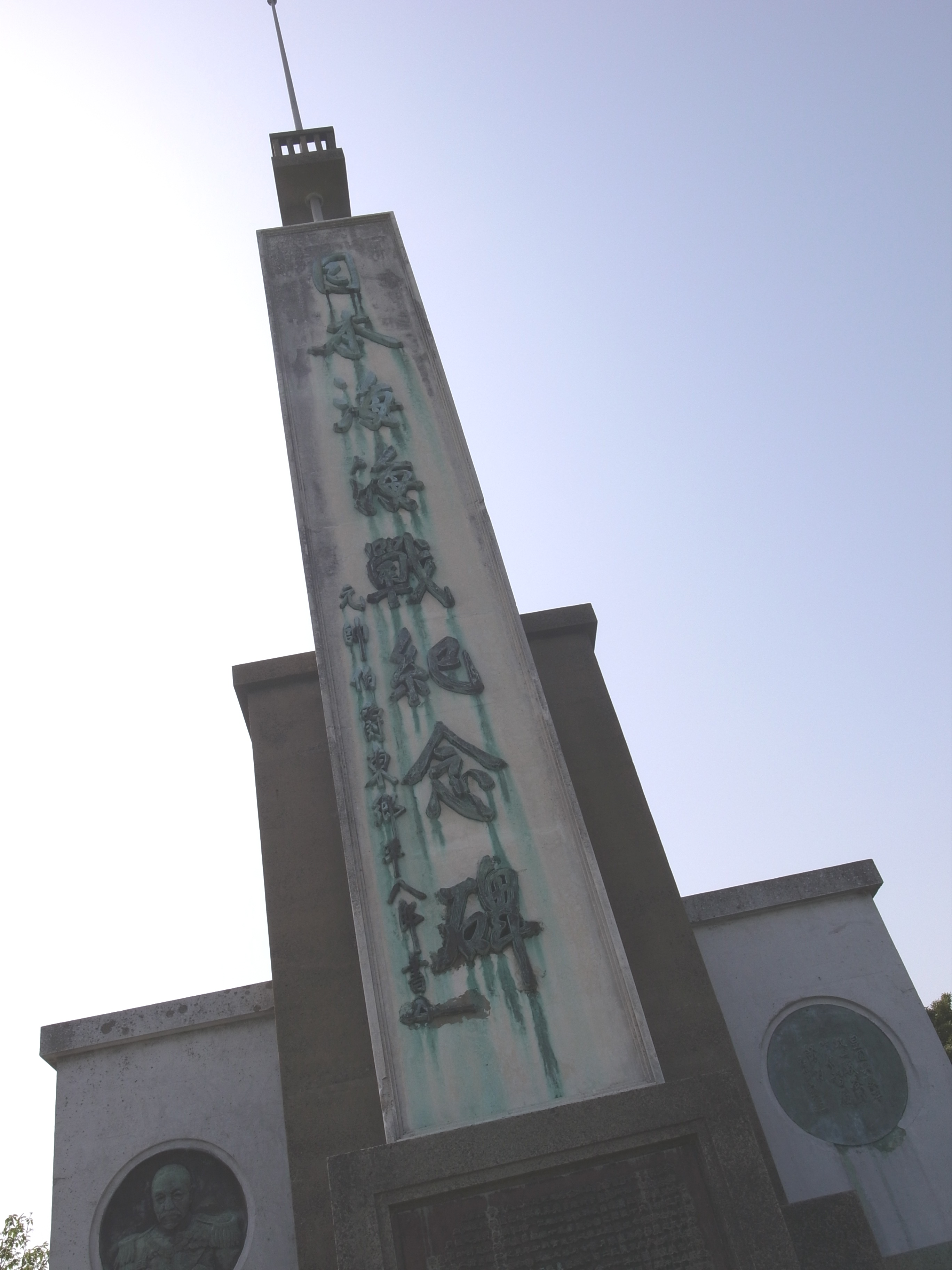 the monument of the Battle of Tsushima (Fukuoka Pref. Japan)